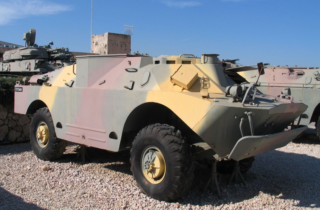 Soviet-made 9P122 Malyutka tank destroyer in Yad la-Shiryon Museum, Israel. 2005.